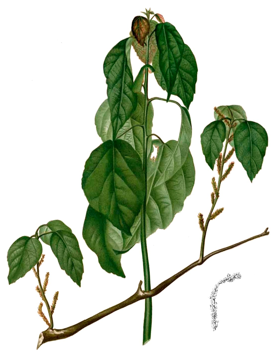 Plate from book Alchornea sicca